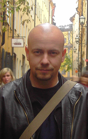 Comic Creator Ola Skogäng. August 2008